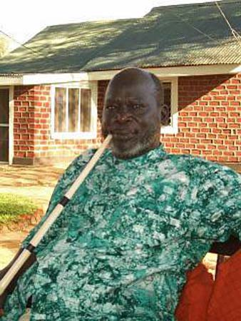 Original caption states, "Former Southern Sudan leader John Garang."